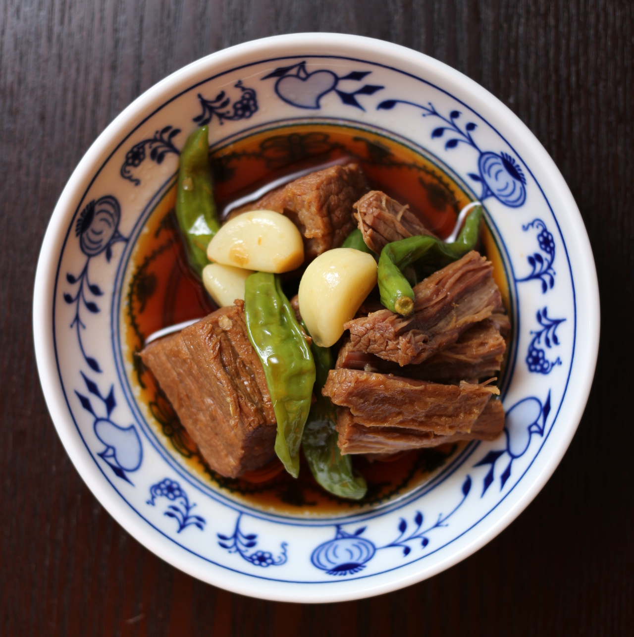 A side dish made by braising meat in soy sauce.